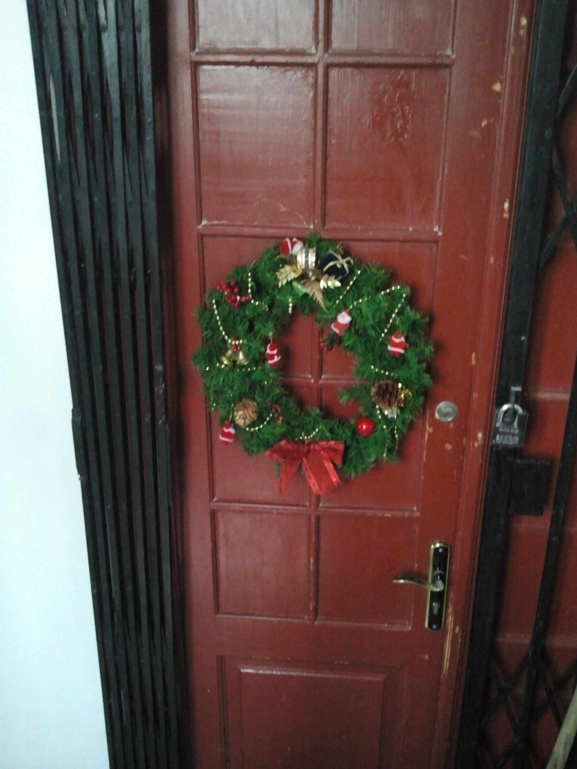 Christmas Traditional Wreath On Door In Romania